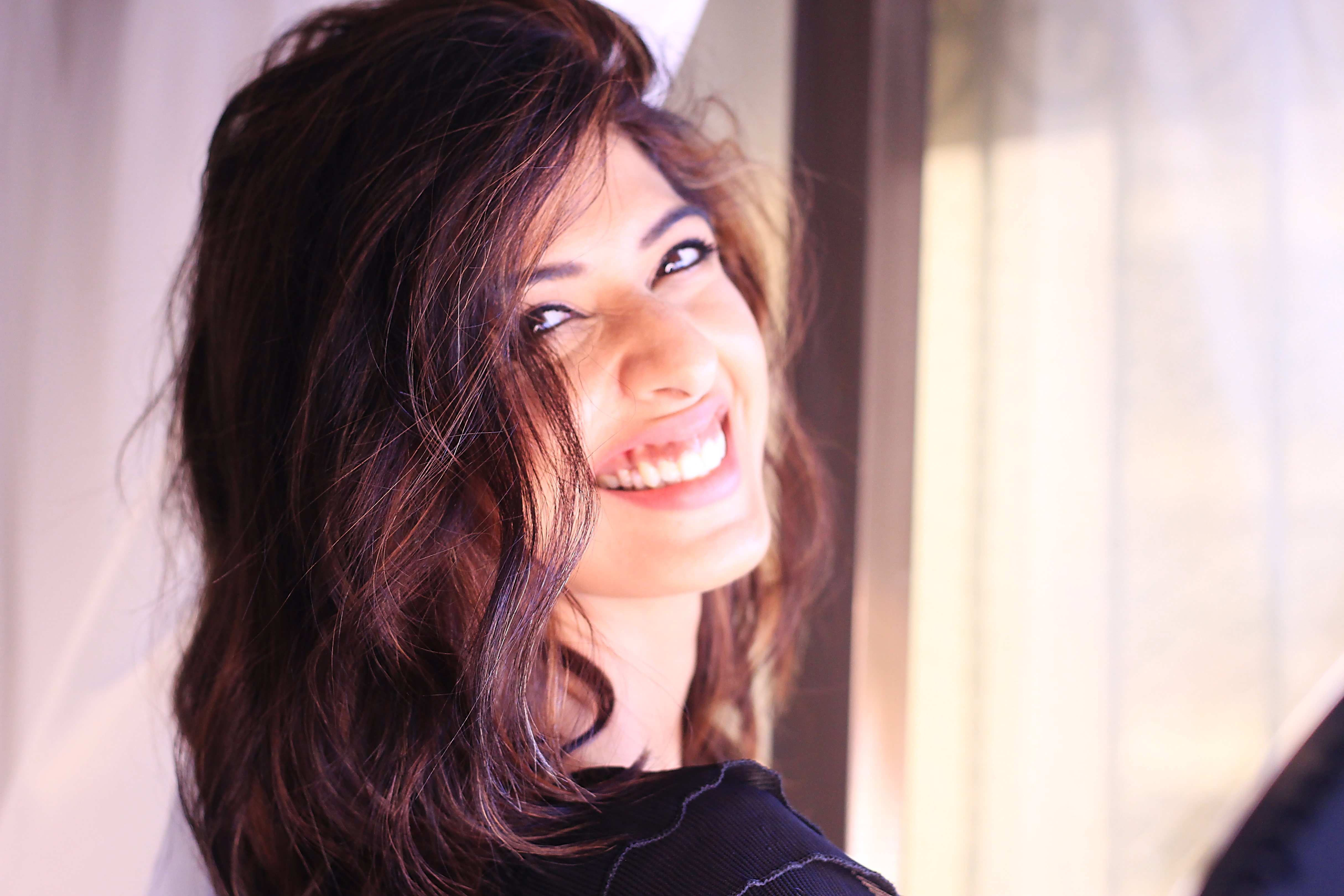 Picture of Aishwarya Sakhuja Nag